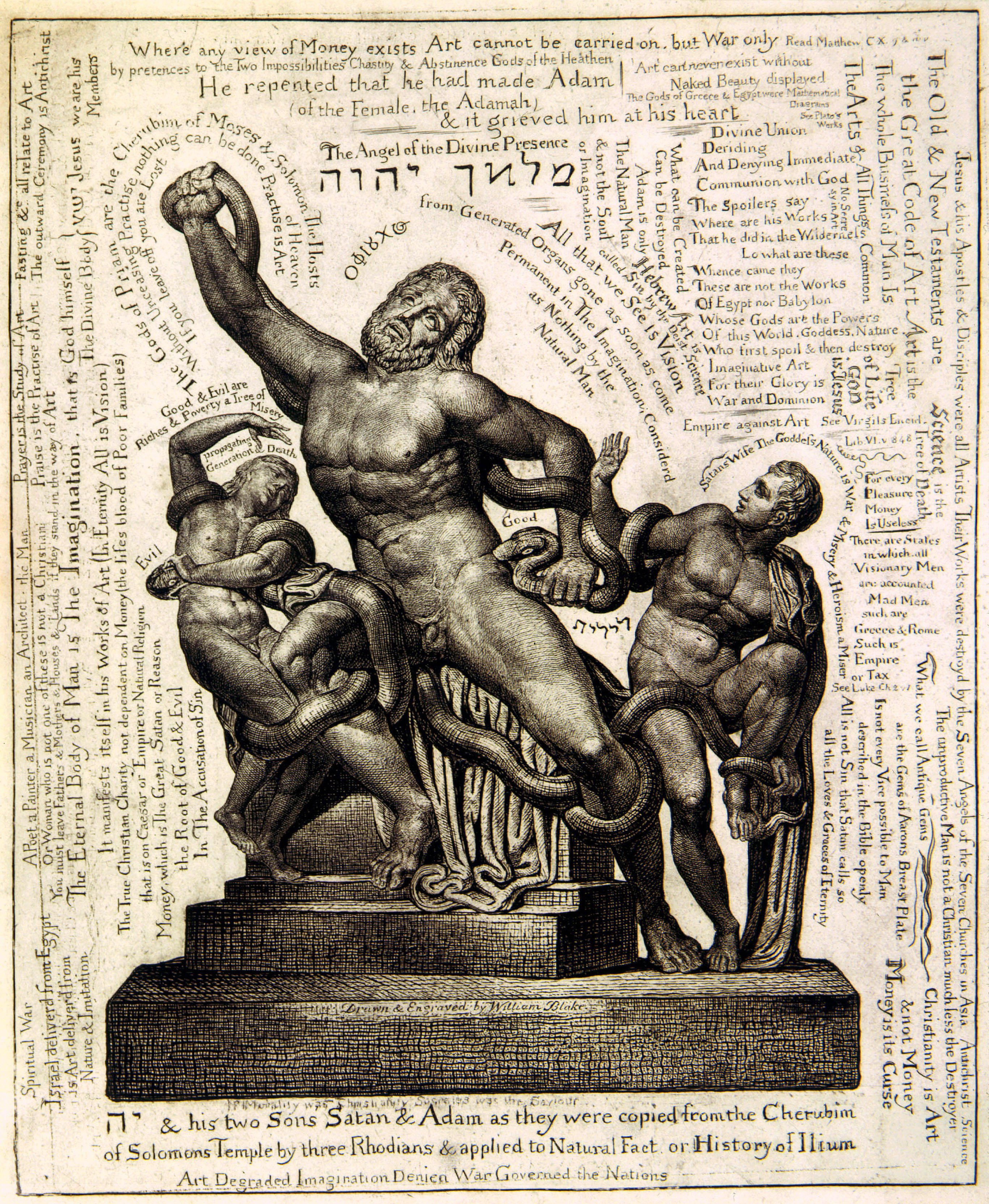 Laocoön, copy B, object 1 (Bentley 1, Erdman 1, Keynes 1) "Laocoön"